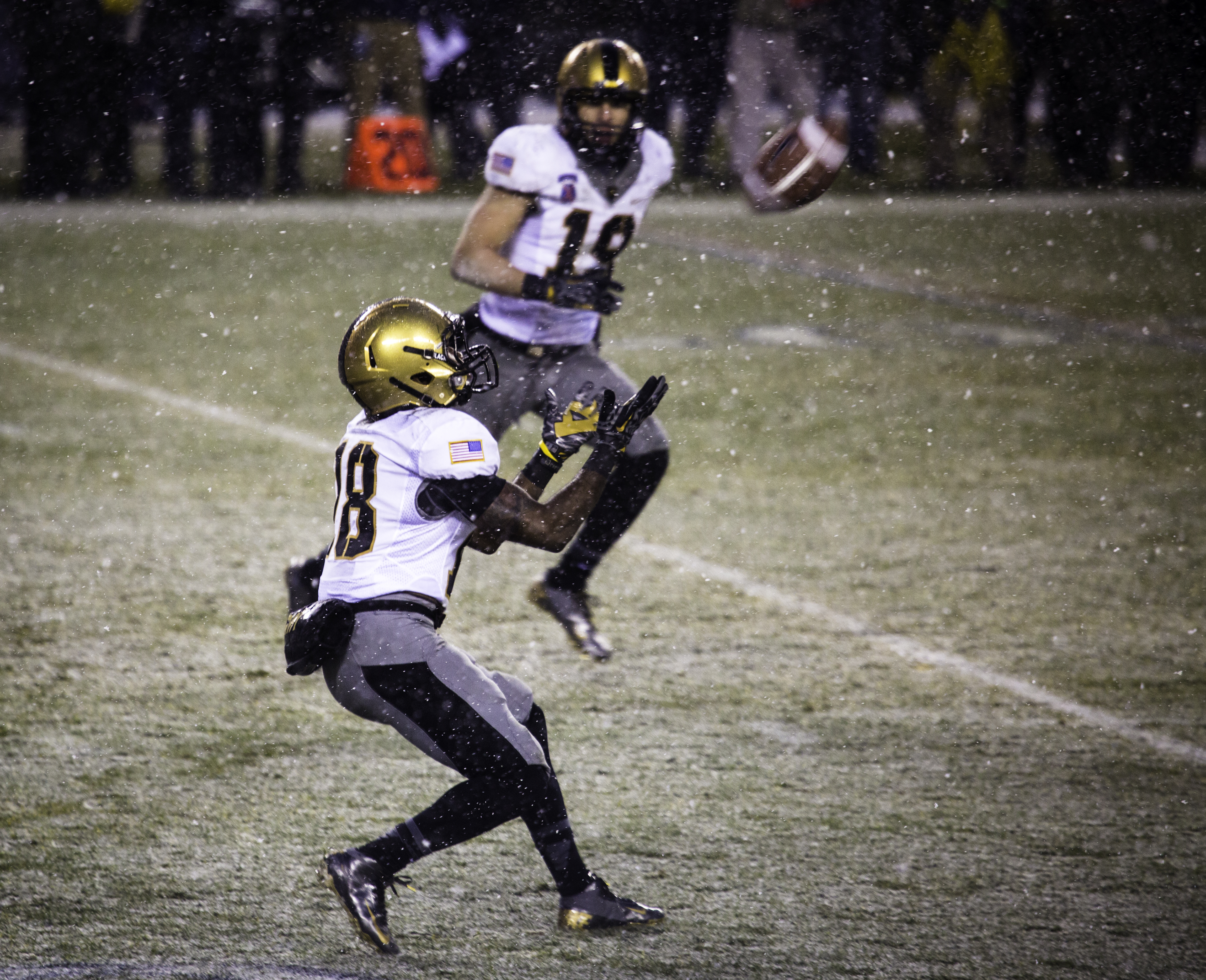 The punt returner for the Army Black Knights awaits the ball during the second quarter of the 2013 Army/Navy football game, Dec. 14, 2013, Lincoln Financial Field, Philadelphia. The Navy Midshipmen defeated the Army Black Knights with a score of 34-7. (U.S. Army photo by Spc. Philip Diab/Released) Unit: 55th Combat Camera DVIDS Tags: Philadelphia; Army Black Knights; Army football; snow; Black Knights; Army Navy football game; Lincoln Financial Field; Navy football; Navy; West Point; Blue Angels; Army; Navy Midshipmen; Americas game; Americas rivalry; Midshipen; Army vs Navy 2013